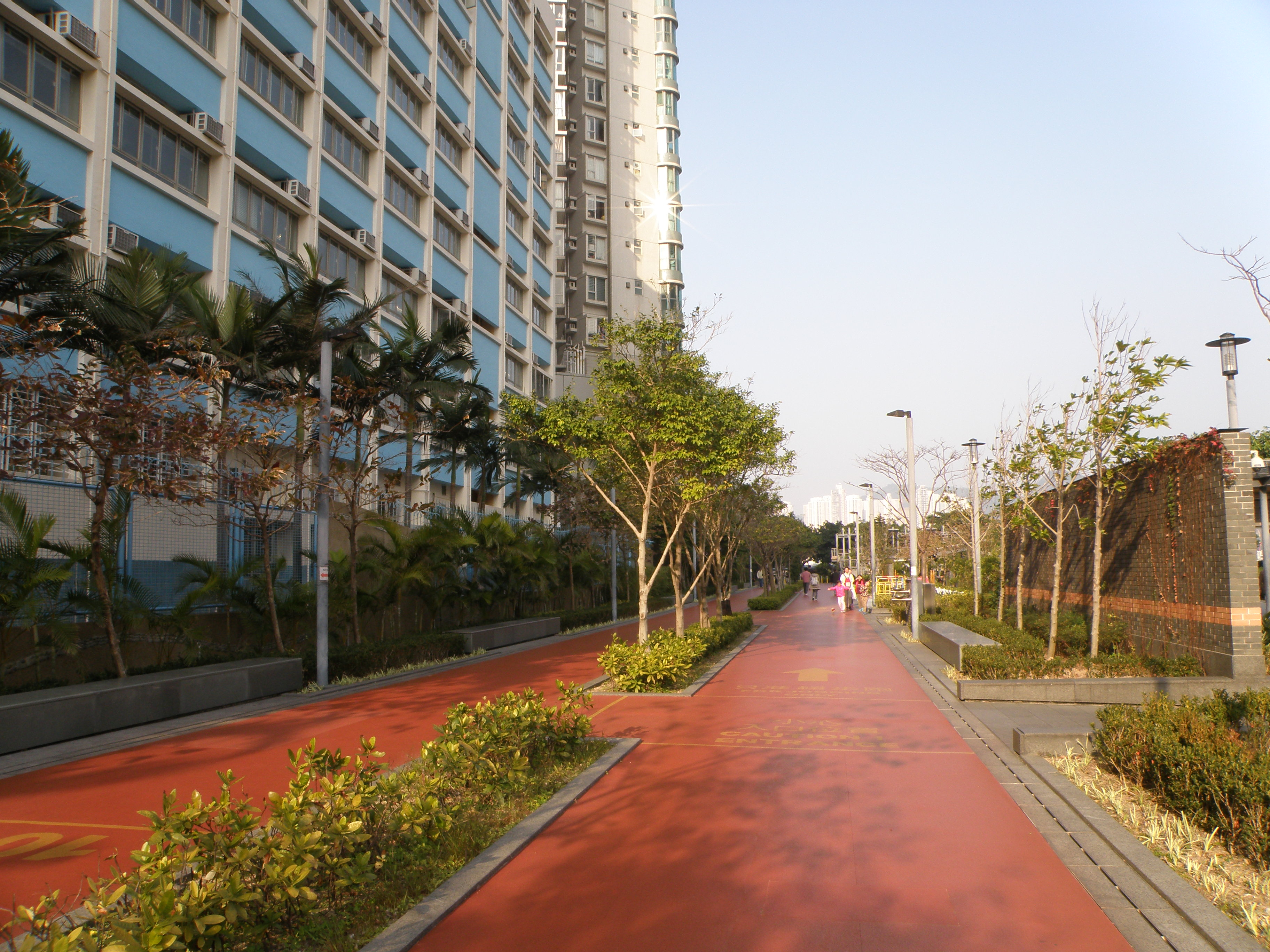 Aldrich Bay Park in Shau Kei Wan, Hong Kong.